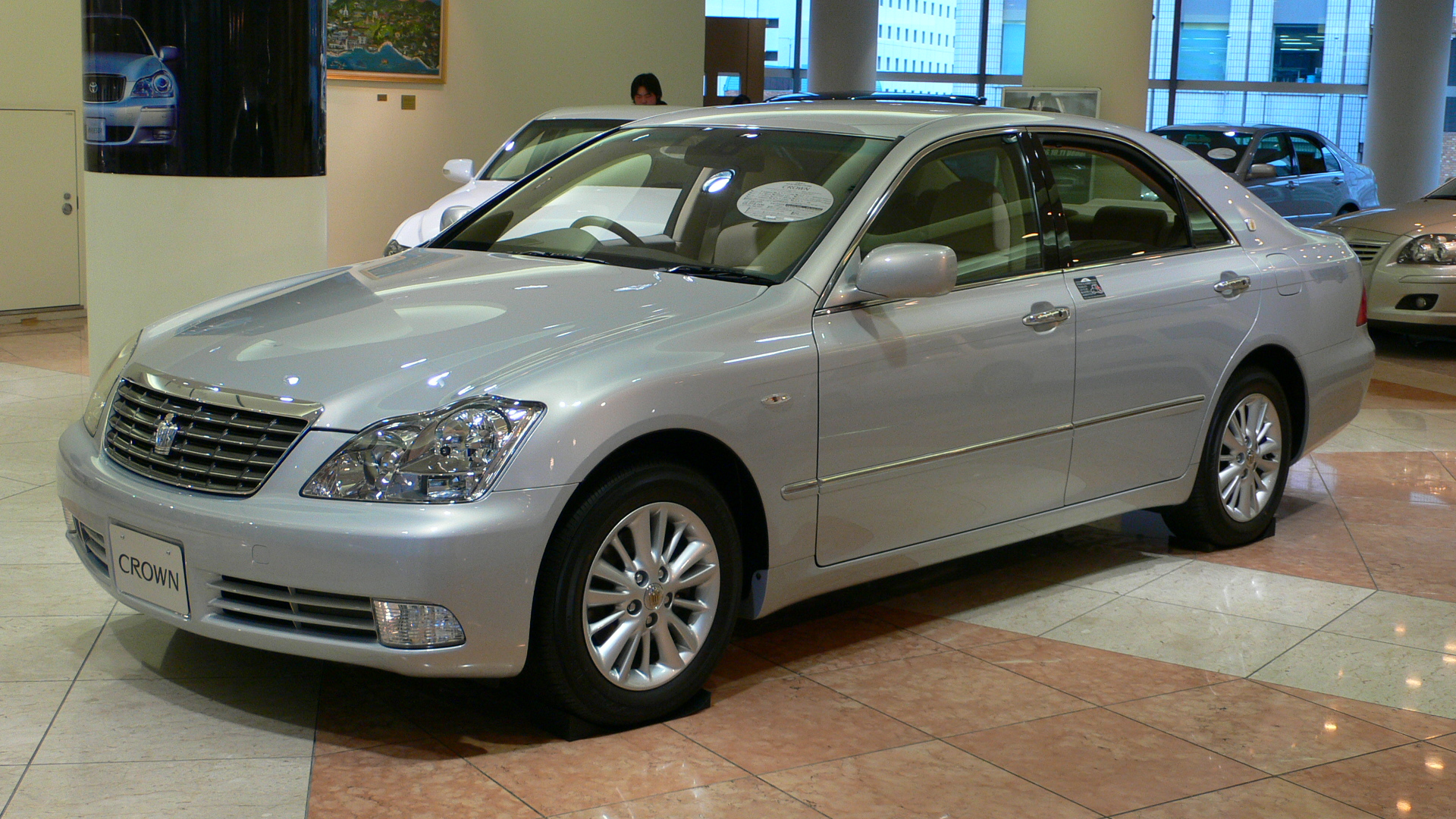 Toyota_Crown-Royal(2005) taken in Showroom of Toyota-AMLUX